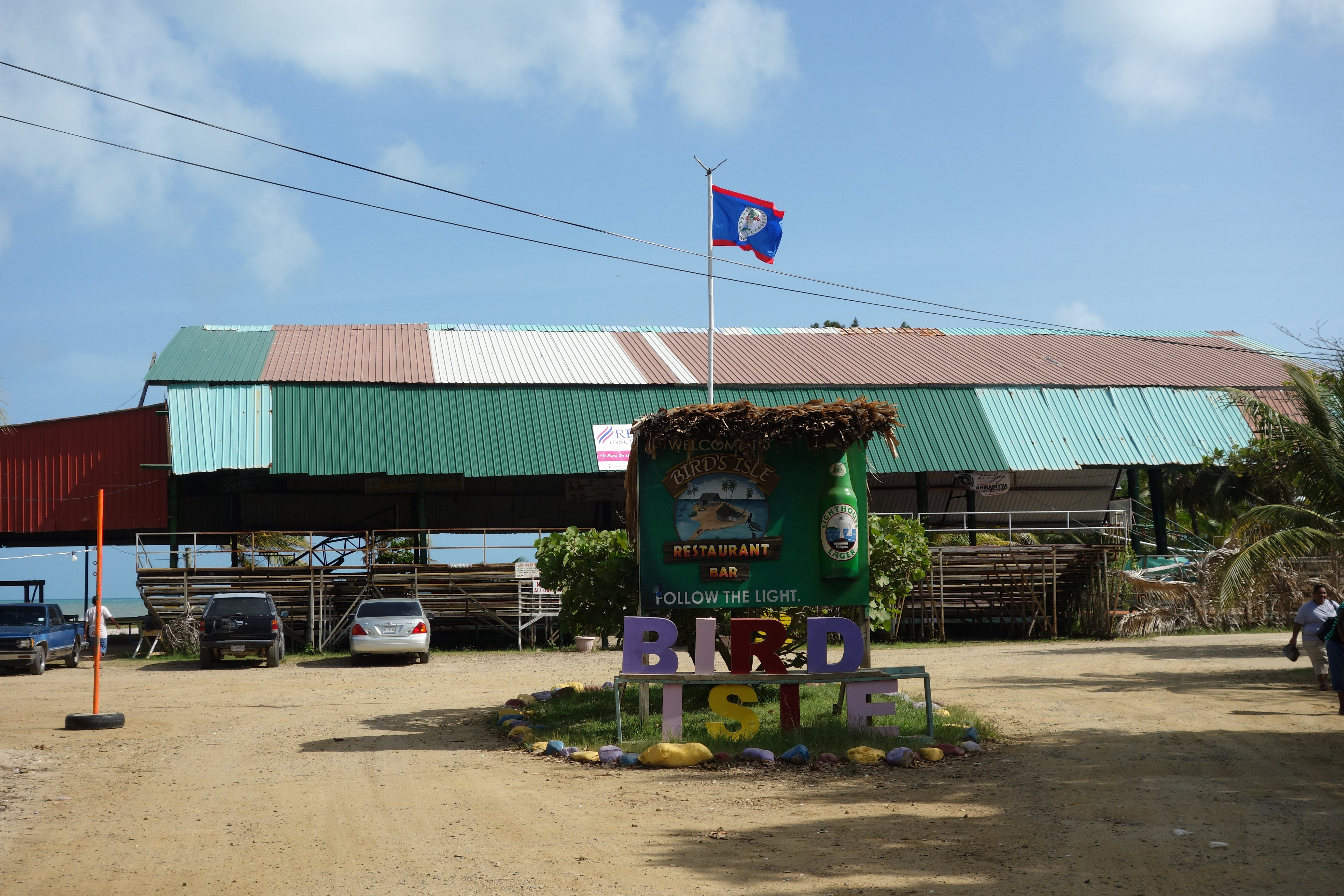 Bird's Isle in Belize City